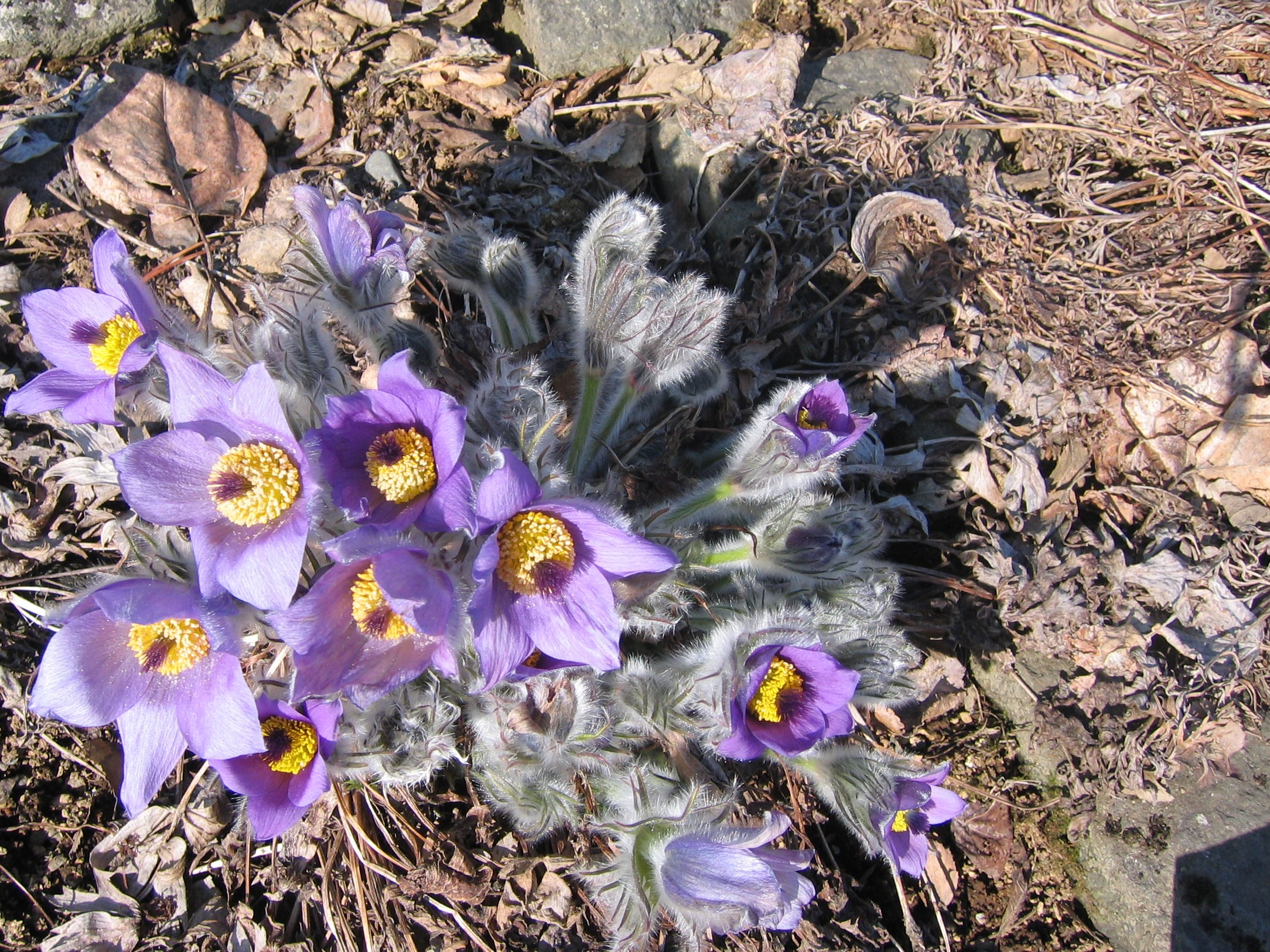 Pulsatilla halleri (icelandic: Heiðabjalla) in spring in the botanical garden of Reykjavik, Iceland, photo by Salvor Gissurardottir.